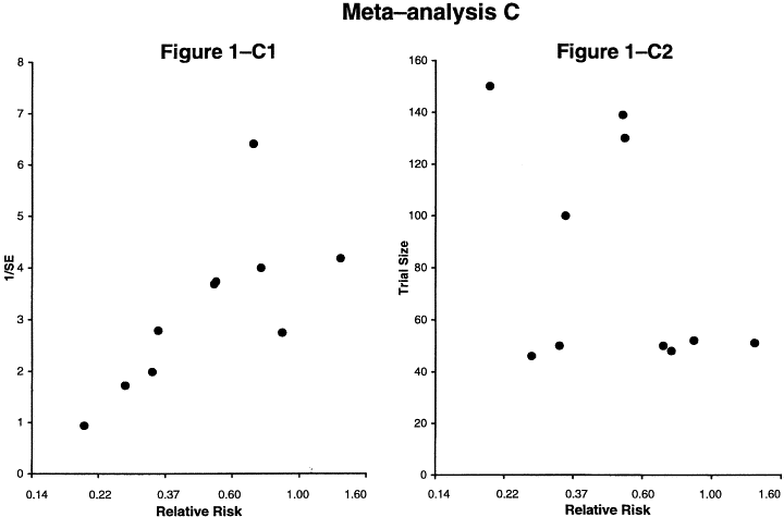 Funnel plots of the relative risk of three meta-analyses according to the definition of precision. By Tang JL & Liu JL (2000)